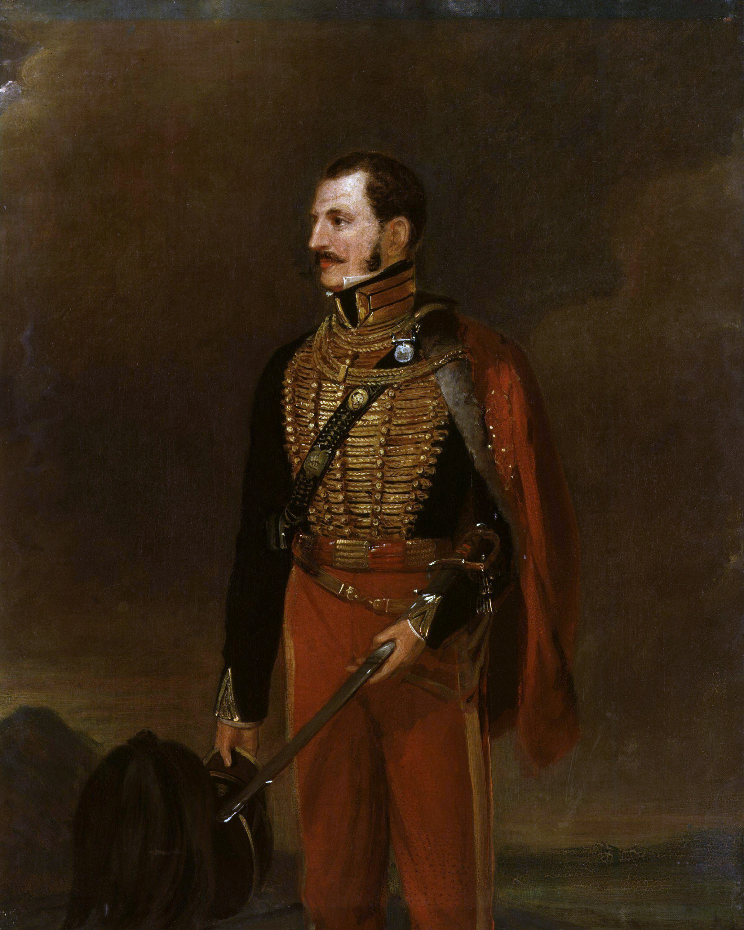 Lord Robert William Manners, by William Salter (died 1875). All images in this batch have been confirmed as author died before 1939 according to the official death date listed by the NPG.